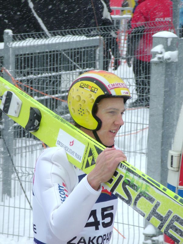 ski jumper Andreas Kuettel from Switzerland during the World Cup in Zakopane on 27-1-2008